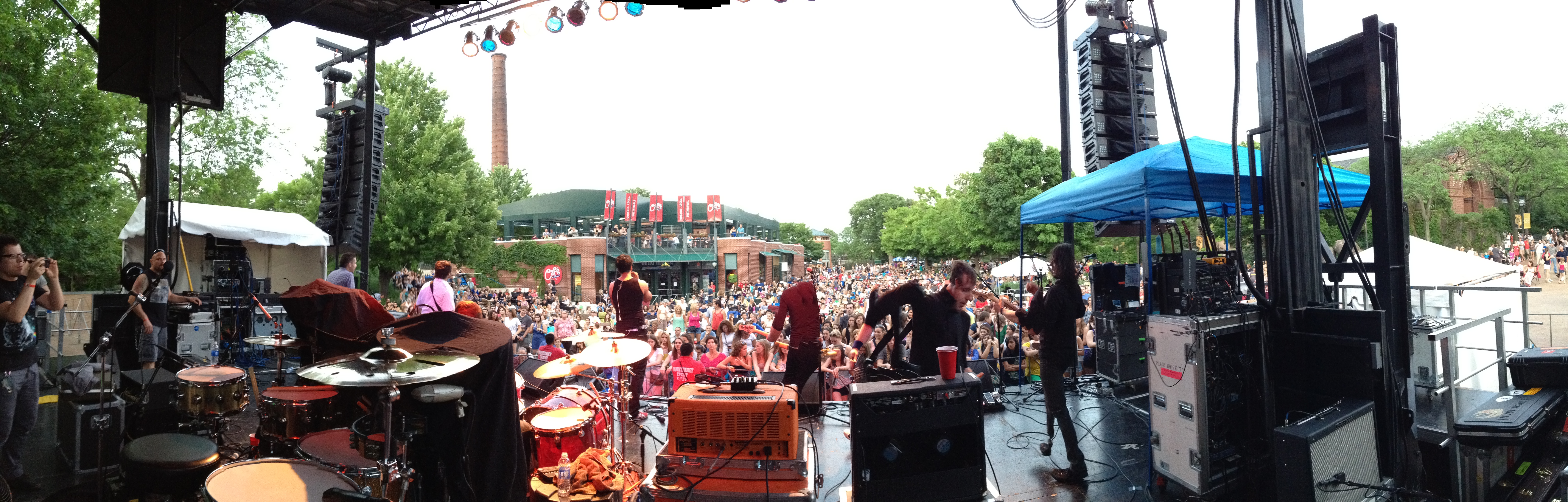 Panorama of The Super Happy Fun Club during their performance at the Lincoln Park Zoo in Chicago, Illinois on June 22, 2013. The show was part of the Jammin' at the Zoo series and was headlined by the Plain White T's.